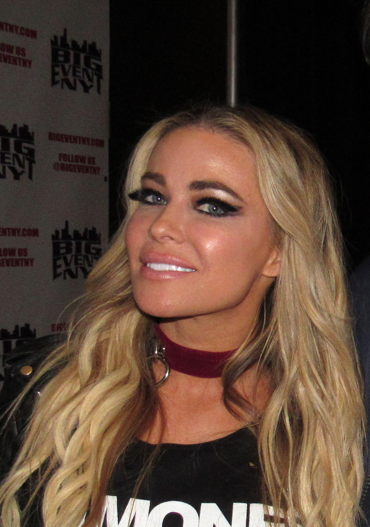 Star of Singled Out, Baywatch, Scary Movie, and her single Go Go Dancer.